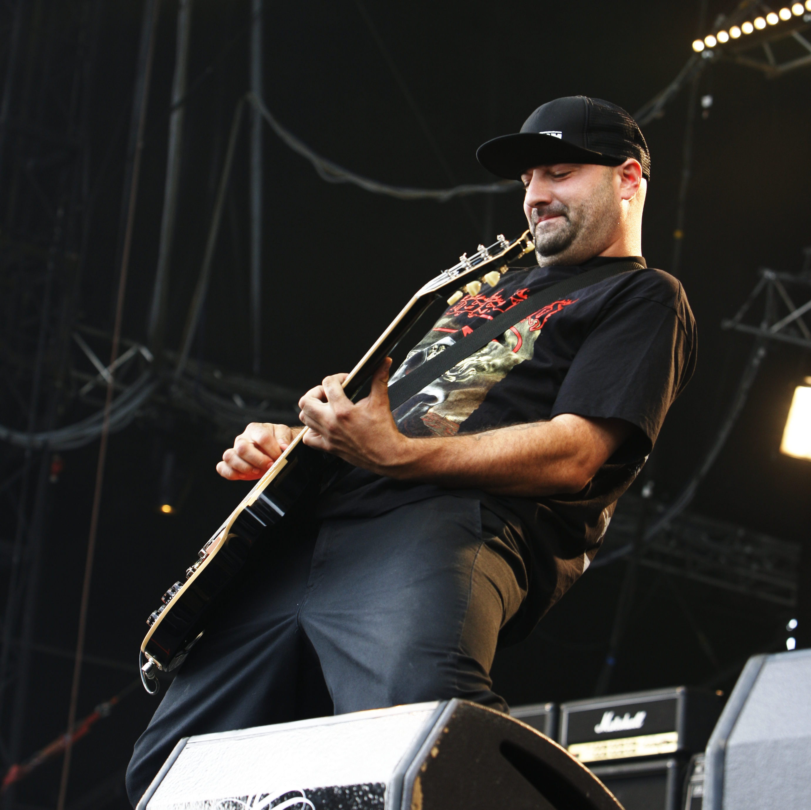 Hatebreed at the Eurockéennes of 2007